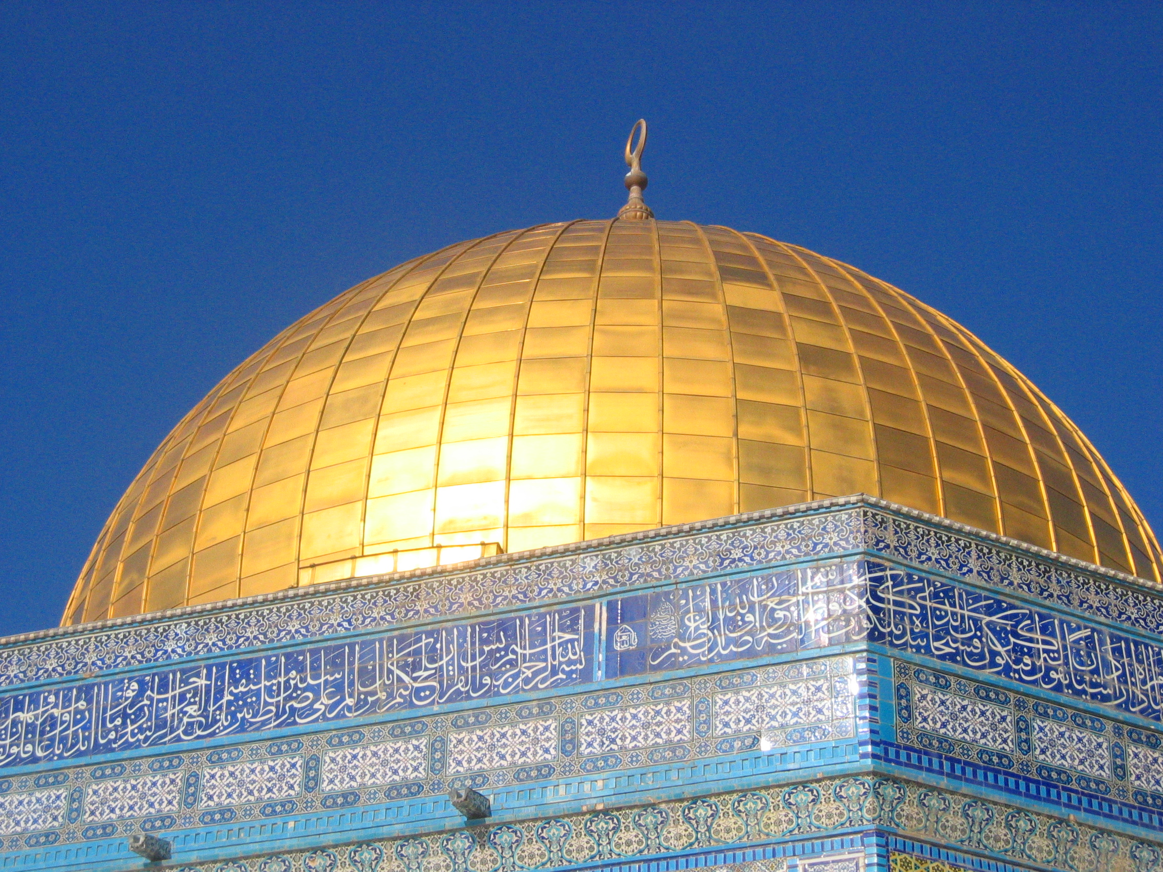 Dome of the Rock in Jerusalem